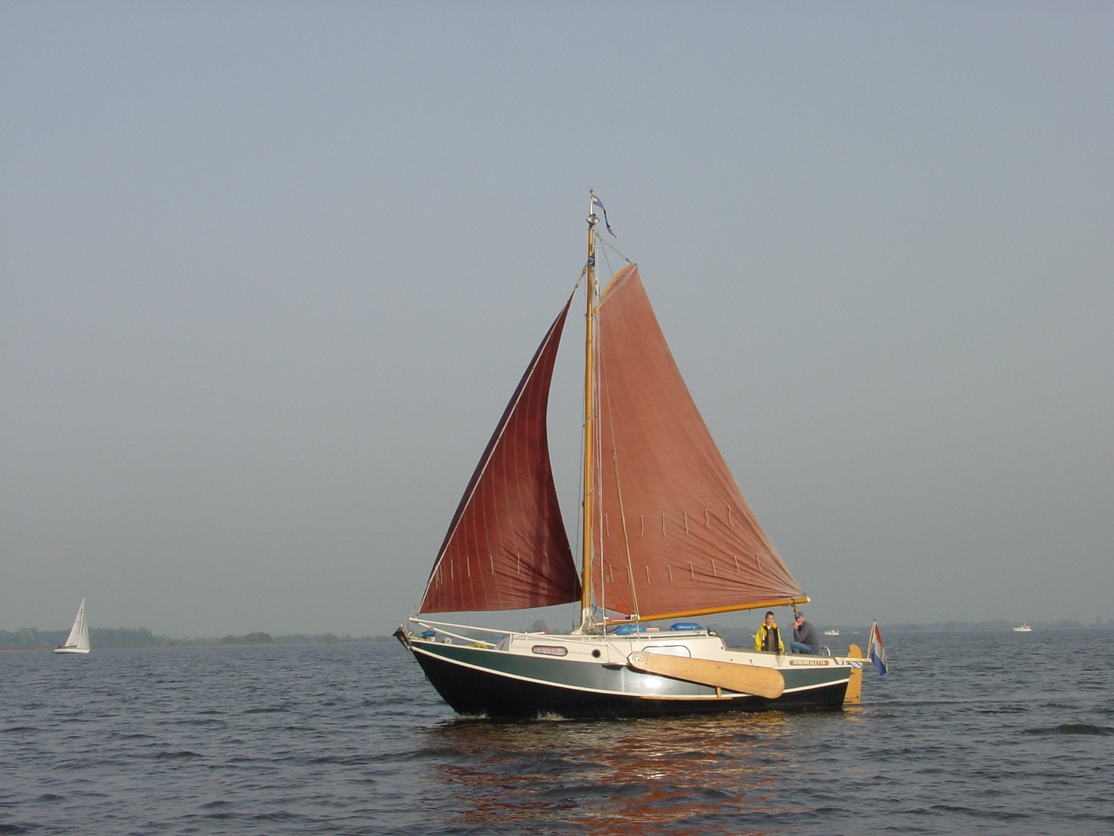 Sailing Baarda Zeegrundel